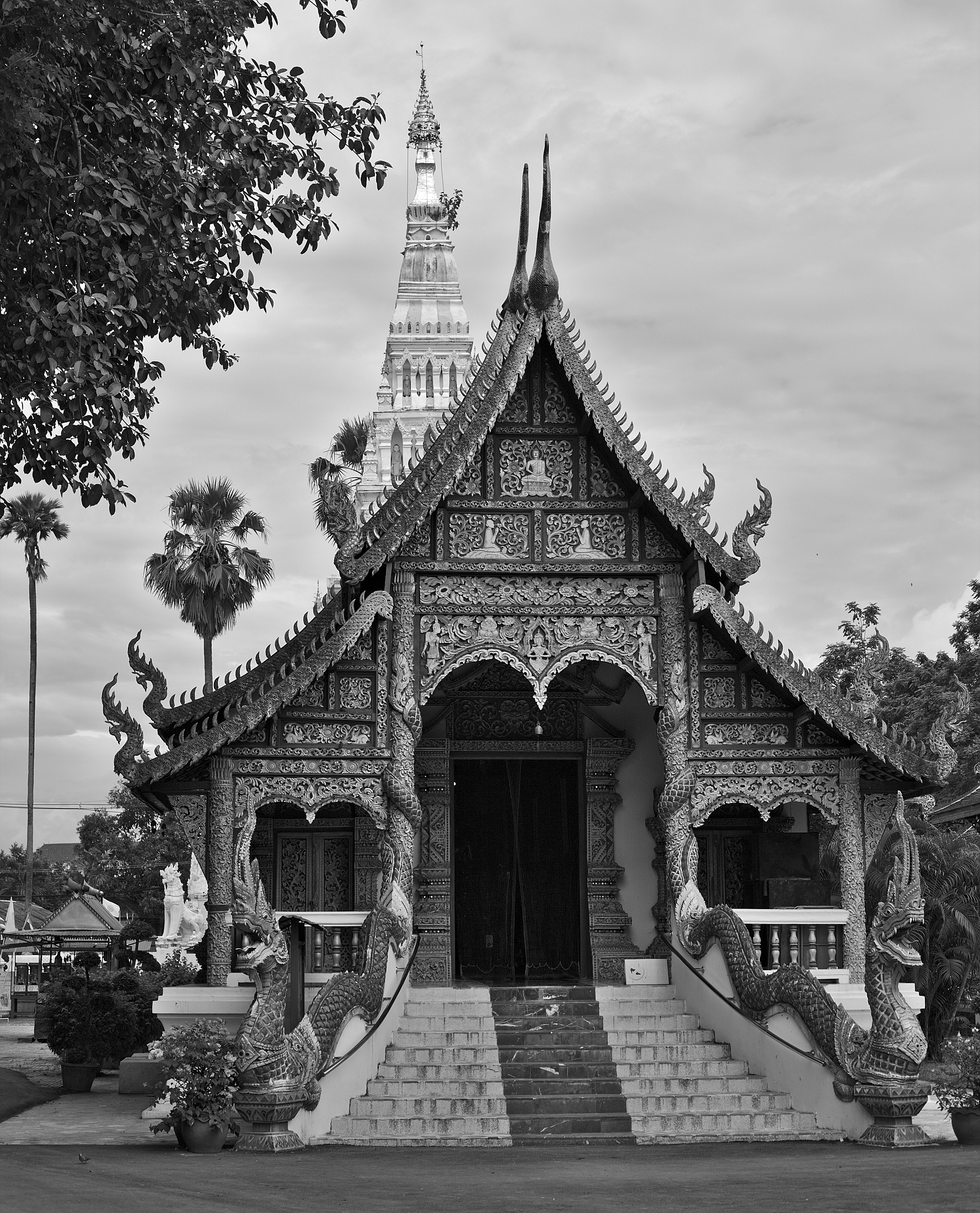 View of the modern, restored main hall at Wat Chedi Liam. In the rear the famous stupa can be seen that is known as Chedi Liam, itself an ancient replica of a similar structure in Lamphun (then Haripunchai), from the Mon period. Wat Chedi Liam (formerly known as Wat Kum Kham), part of the Wiang Kum Kam archaeological site, Chiang Mai, northern Thailand. Tree included for scale.